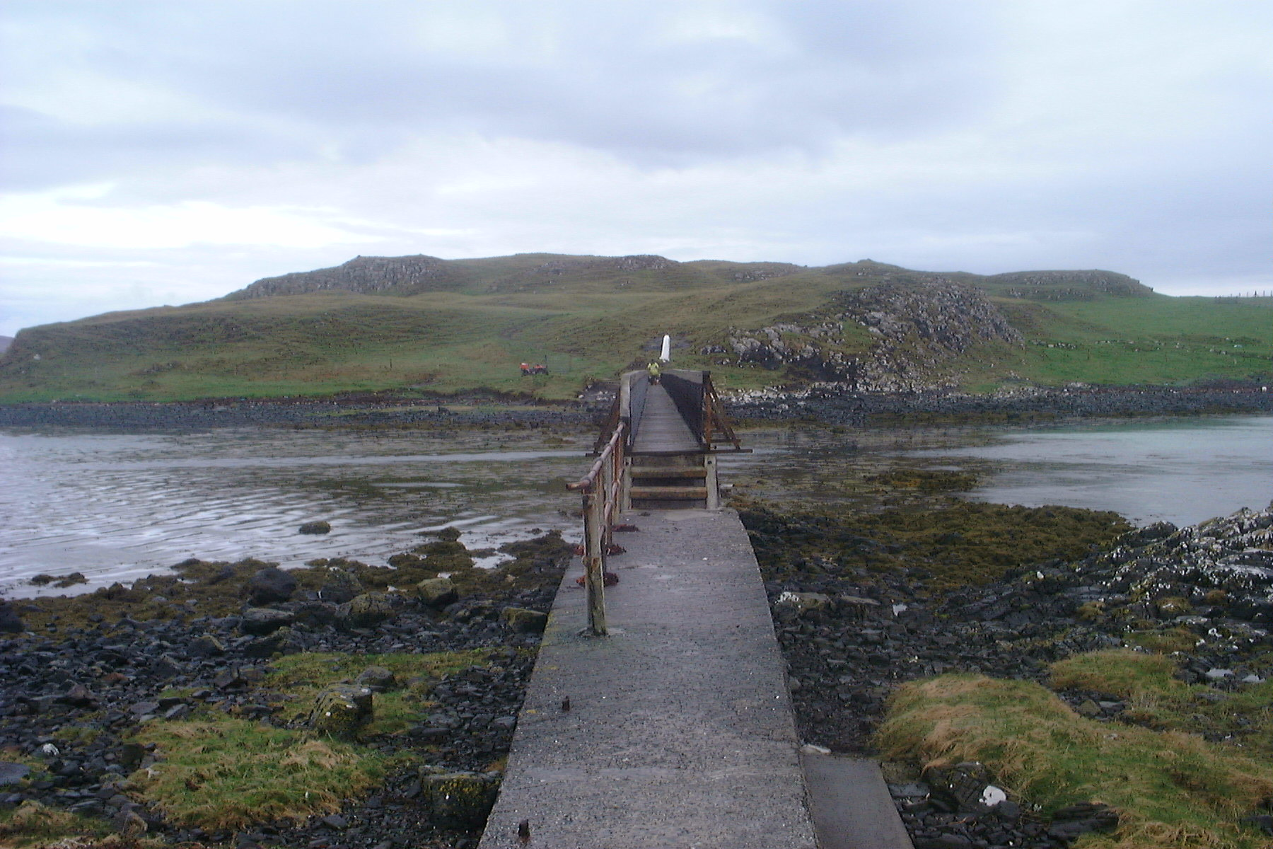 The wooden footbridge that connected Canna and Sanday, destryed by a storm january 2005